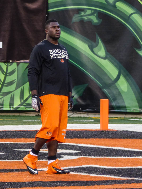 Warming up before Monday Night Football game vs the Pittsburgh Steelers, September 17, 2013